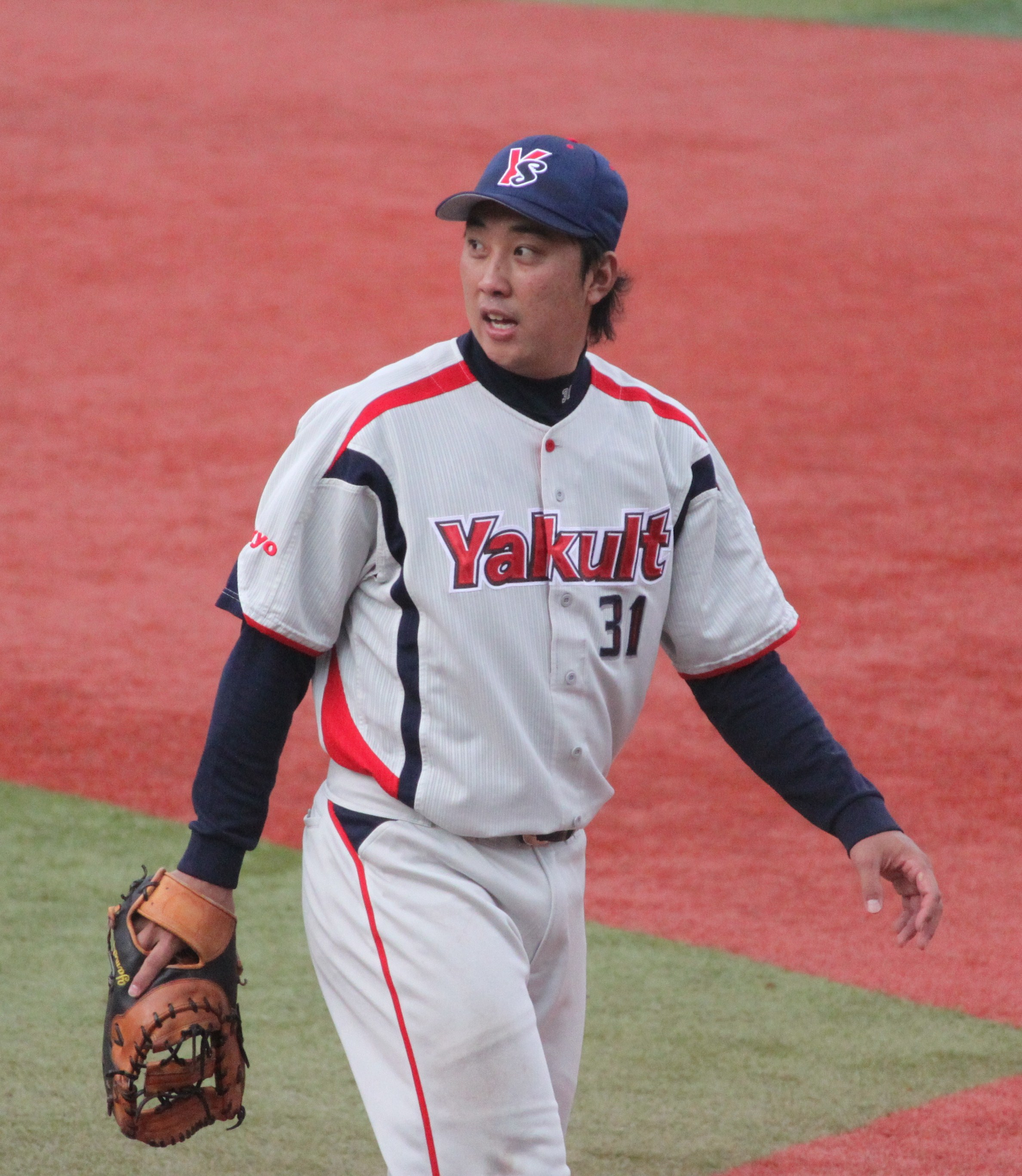 Yuichi Matsumoto, outfielder of the Tokyo Yakult Swallows, at Yokohama Stadium.